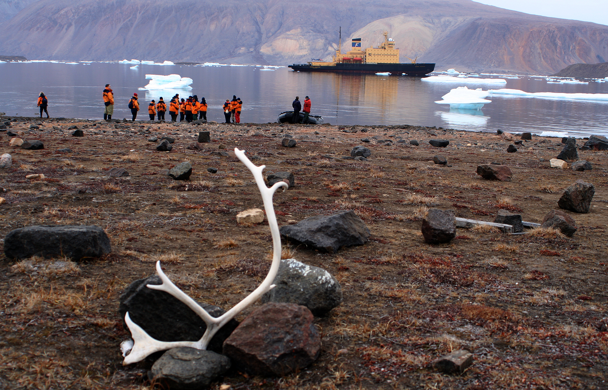 Tundra and Icebreaker in Greenland